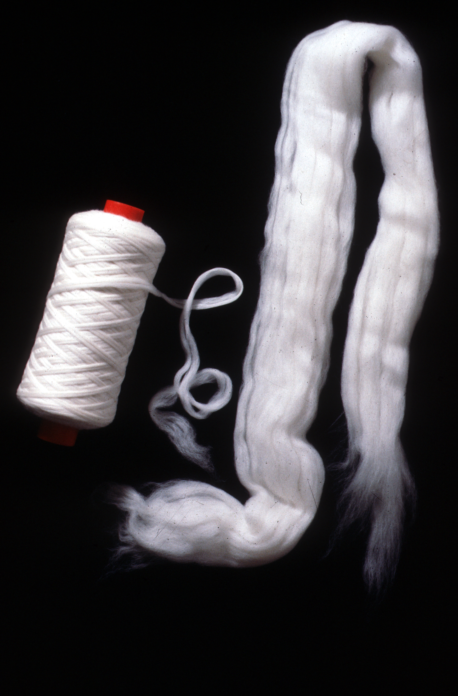 Example of wool comb sliver and roving